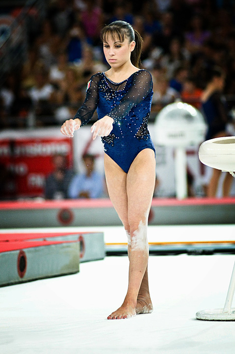 Vanessa Ferrari (b. 1990) at the Mediterraneo Gym Cup July 5th 2008 in Rome